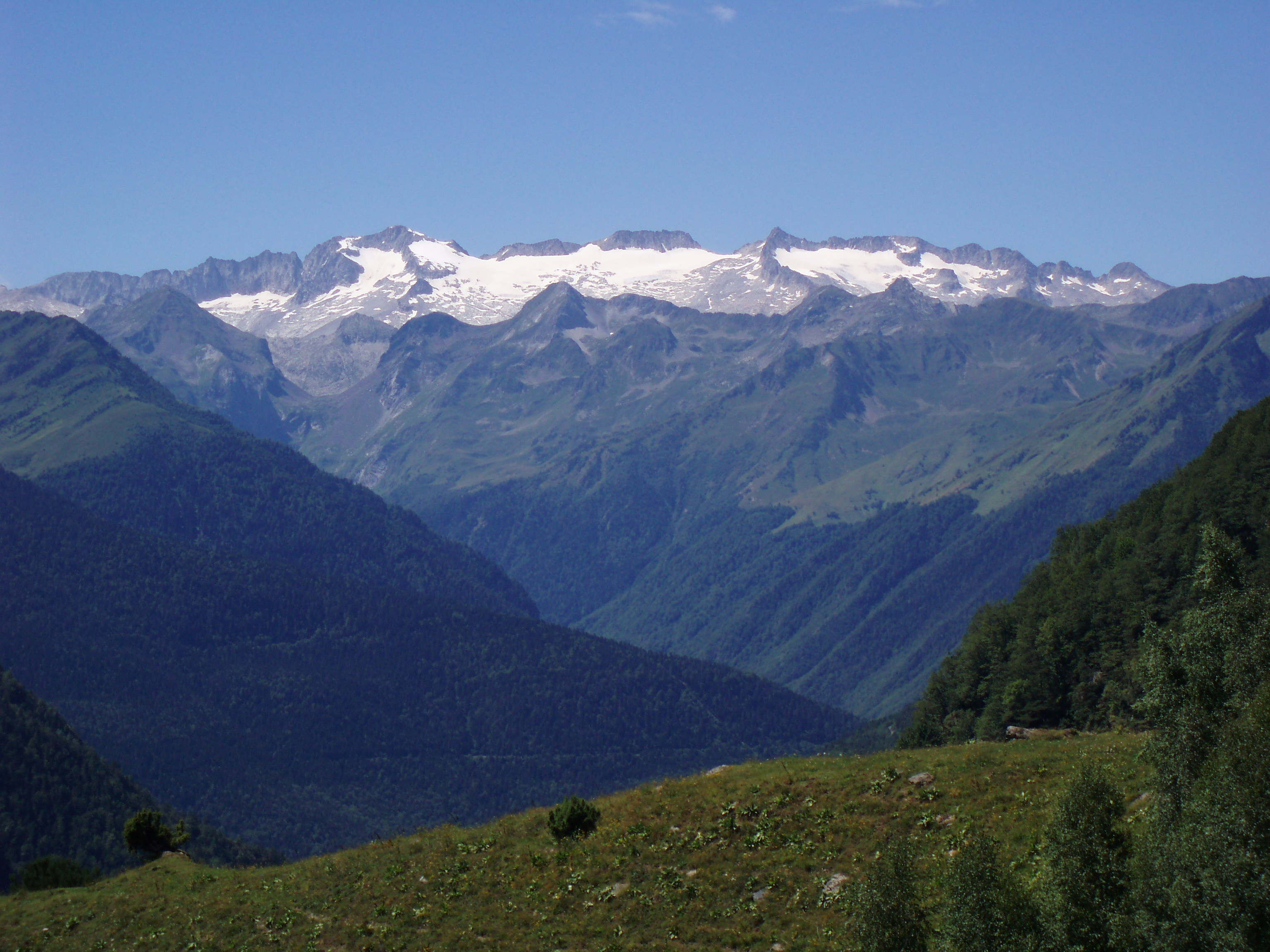 The mountain Aneto